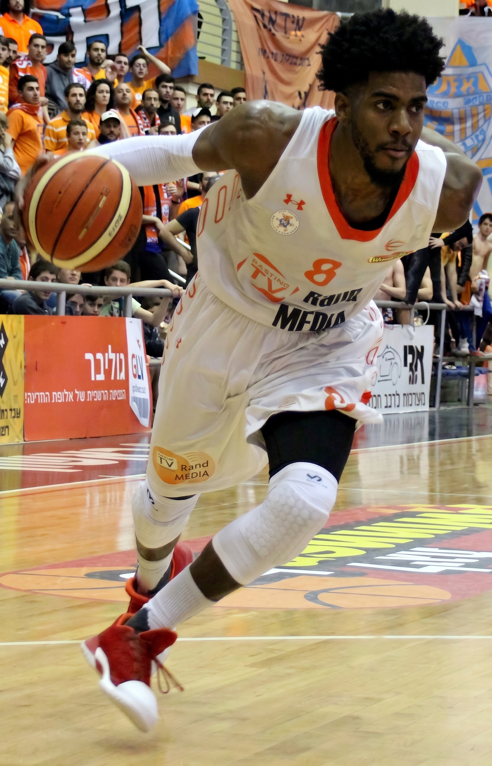 Shawn Dawson during Maccabi Rishon Lezion game against Maccabi Haifa, 05.03.2017.